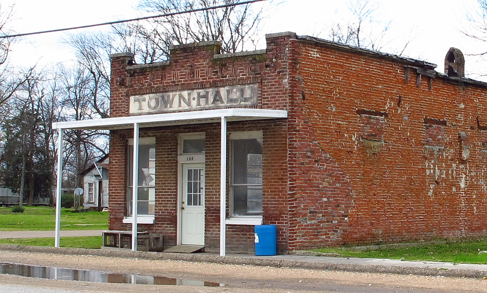 Duncan Town Hall.